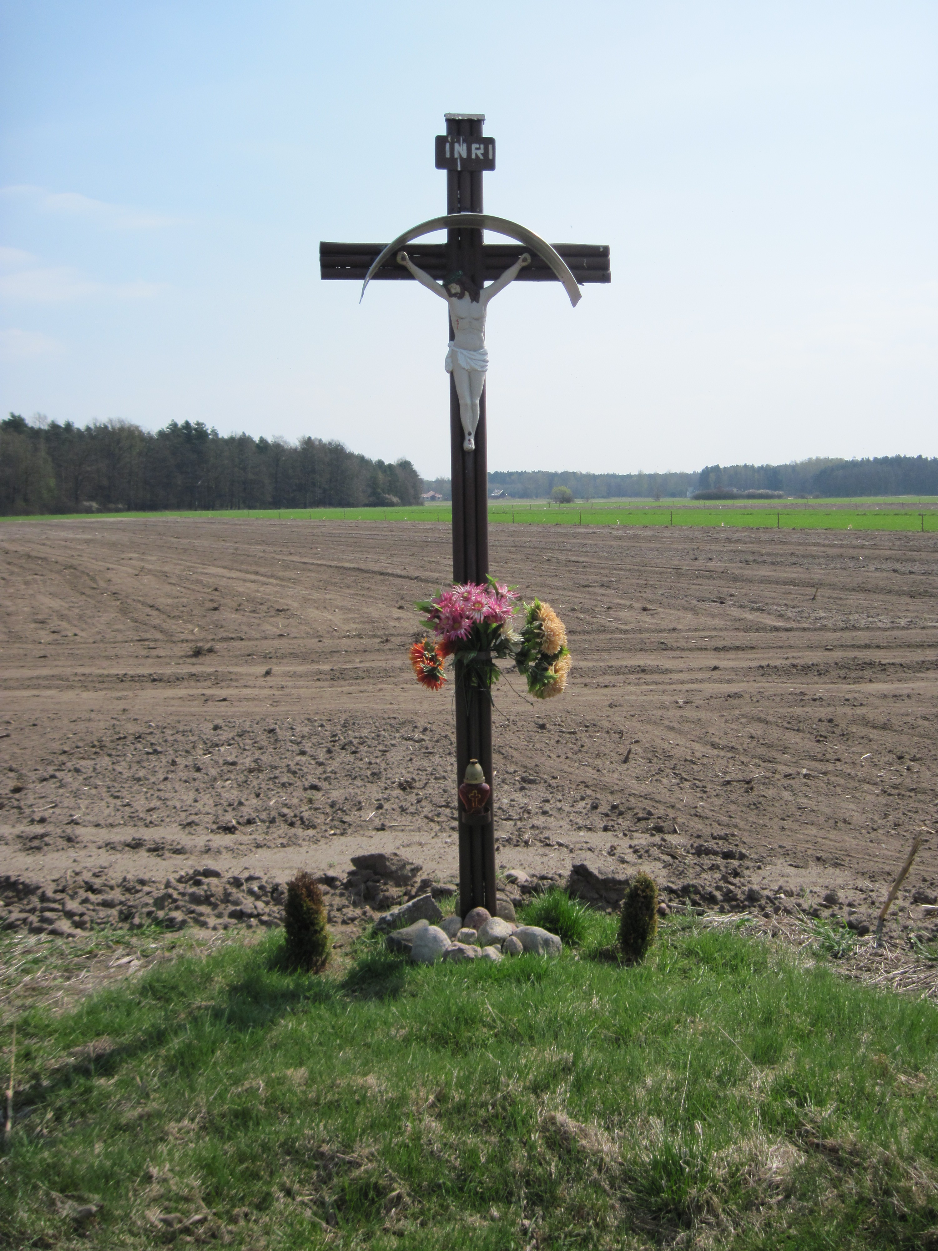 Wayside cross at old way to Dobrzeń Wielki in Brynica